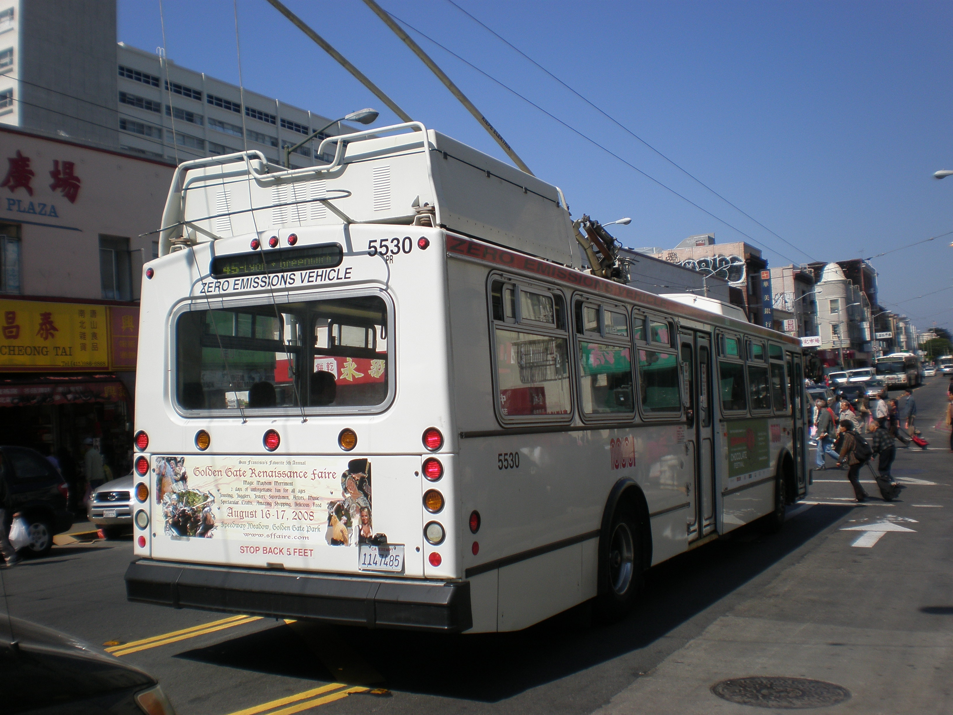 An ETI 14TrSF trolleybus on the 45 Union-Stockton line in Chinatown.